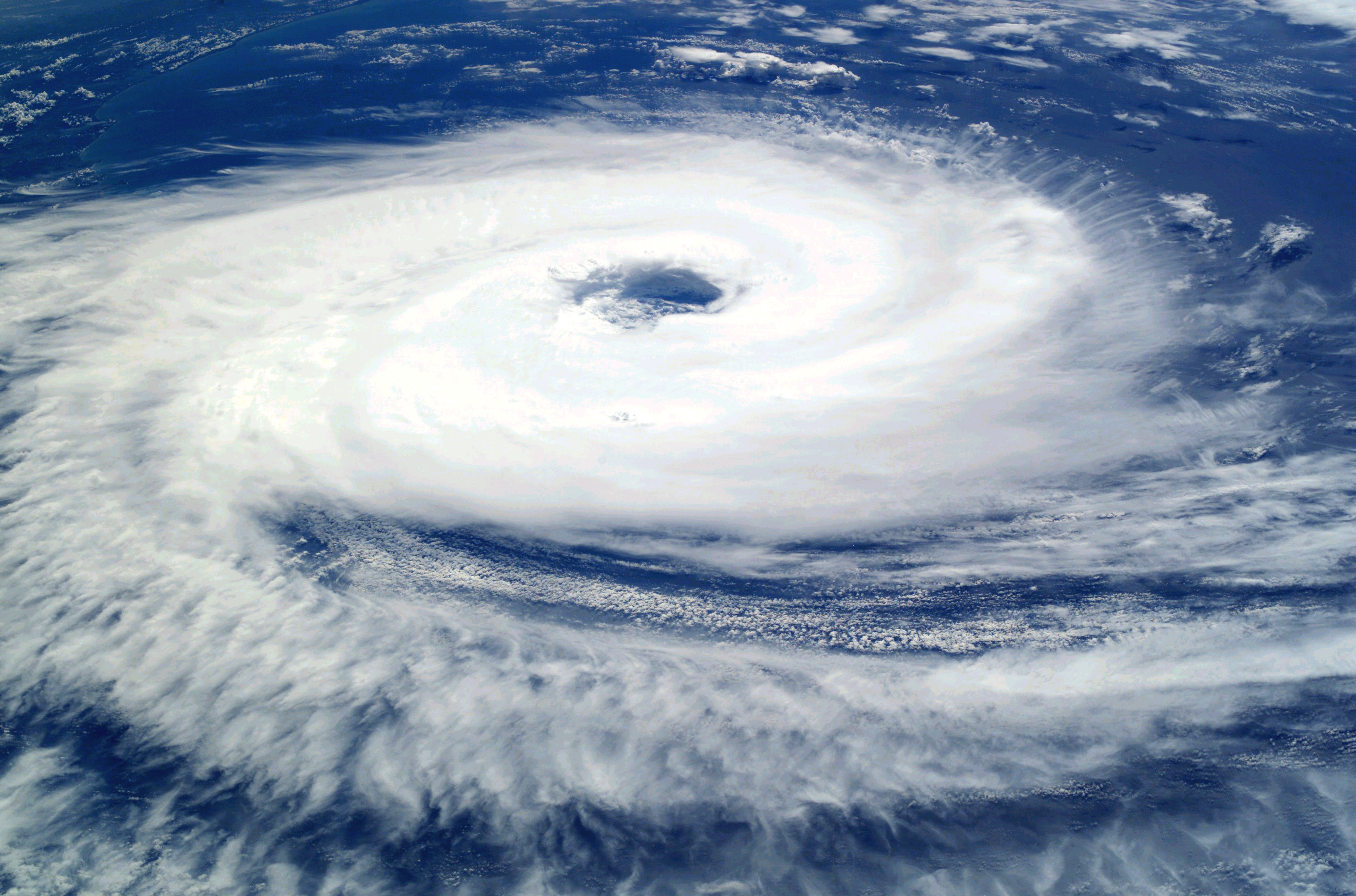 Before the year 2004, only two tropical cyclones had ever been noted in the South Atlantic Basin, and no hurricane. However, a circulation center well off the coast of southern Brazil developed tropical cyclone characteristics and continued to intensify as it moved westward. The system developed an eye and apparently reached hurricane strength on Friday, March 26, before eventually making landfall late on Saturday, March 27, 2004. The crew of the International Space Station was notified of the cyclone and acquired excellent photographs of the storm just as it made landfall on the southern Brazilian state of Santa Catarina (the storm has been unofficially dubbed “Cyclone Catarina”). Note the clockwise circulation of Southern Hemisphere cyclones, the well-defined banding features, and the eyewall of at least a Category 1 system. The coastline is visible under the clouds in the upper left corner of the image.